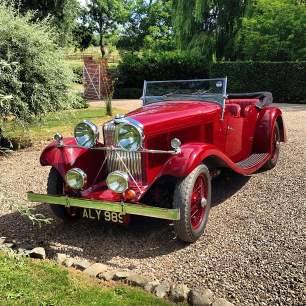 Talbot Powys County, Wales, United Kingdom (DVLA) first registered 2 November 1933, 2970 cc